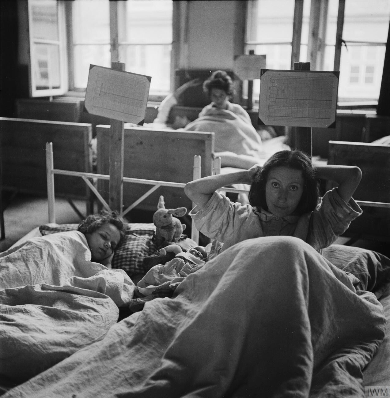 The Liberation of Bergen-belsen Concentration Camp A woman inmate combs her hair while lying in bed in one of the wards at the hospital set up in Hohne Military Barracks nearby. Her child sleeps beside her with a toy on her pillow provided by the British Red Cross.